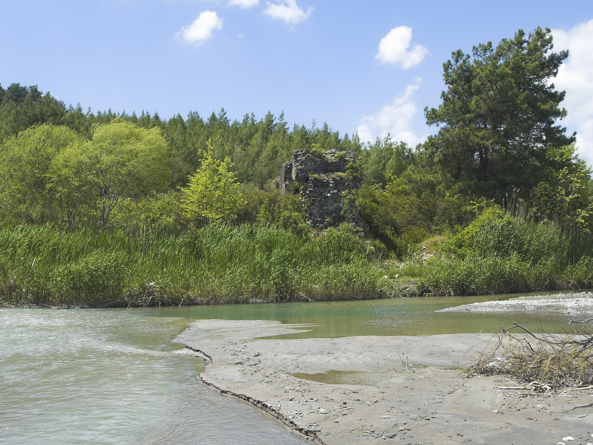 Remains of the Bridge near Kemer, a Roman arch bridge in Lycia, modern-day southwestern Turkey, seen from the Xanthos river (Koca Çayı)